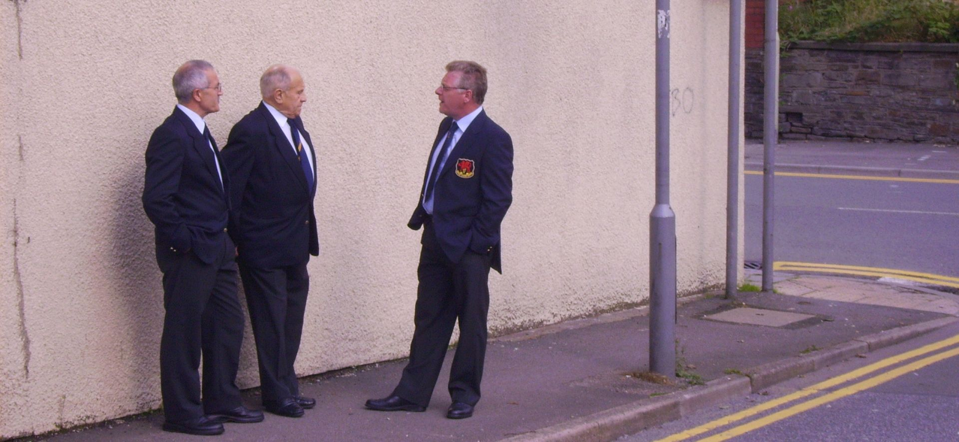 Treorchy Male Voice Choir, Gelli, Rhondda. Members in tie and Blazer awaiting bus for trip to Bridgend.